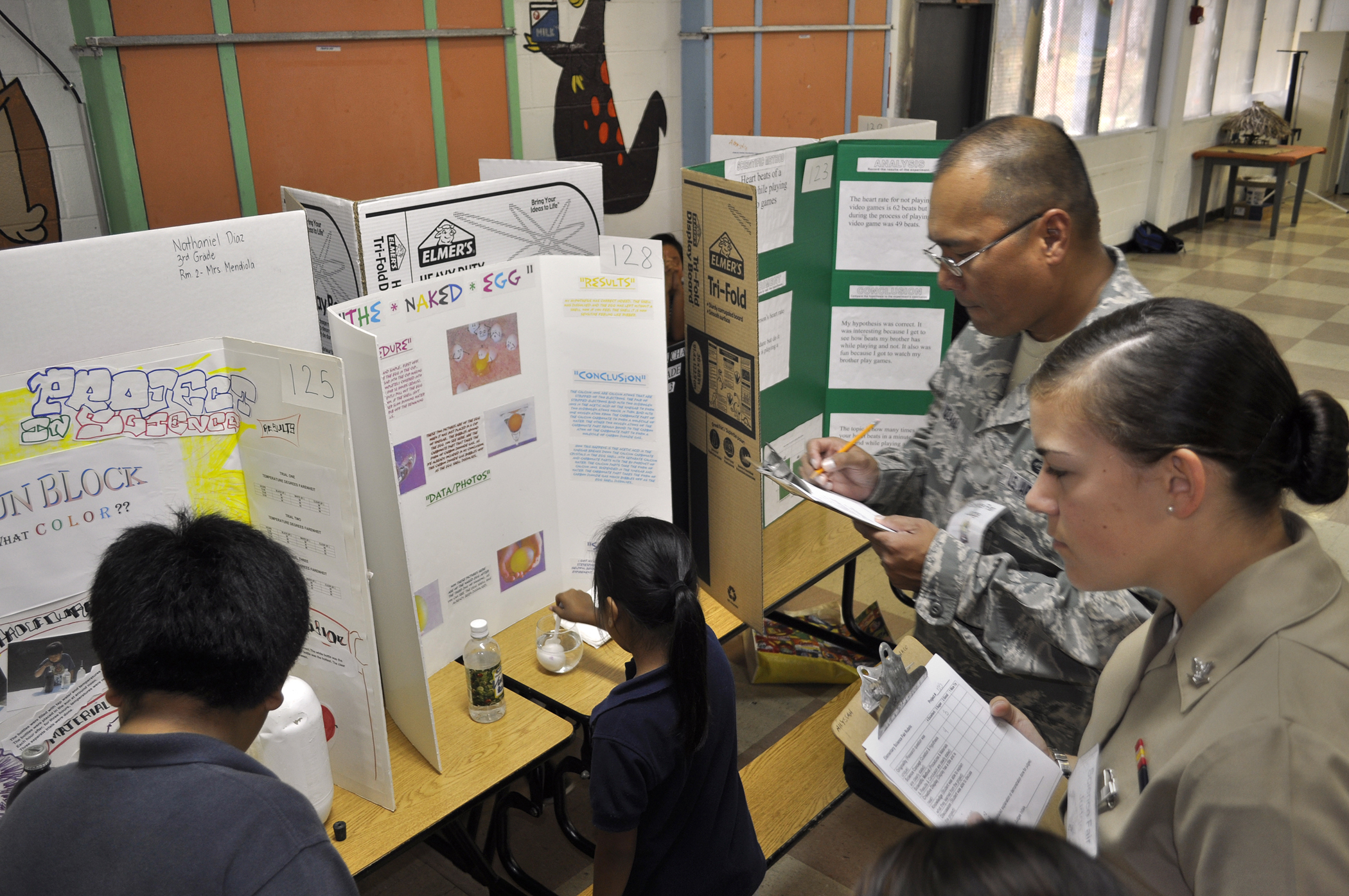 GUAM (April 16, 2010) Construction Electrician 3rd Class Jill Johnston, assigned to U.S. Naval Facilities Engineering Command (NAVFAC) Marianas, right, and Lt. Col. Johnny Lizama, commander of the 254th Air Base Group, Guam Air National Guard, listen to third-graders from Harry S. Truman Elementary School explain their science projects. Johnston was one of seven NAVFAC Sailors who judged the school's science fair. (U.S. Navy photo by Mass Communication Specialist 2nd Class Corwin Colbert/Released)